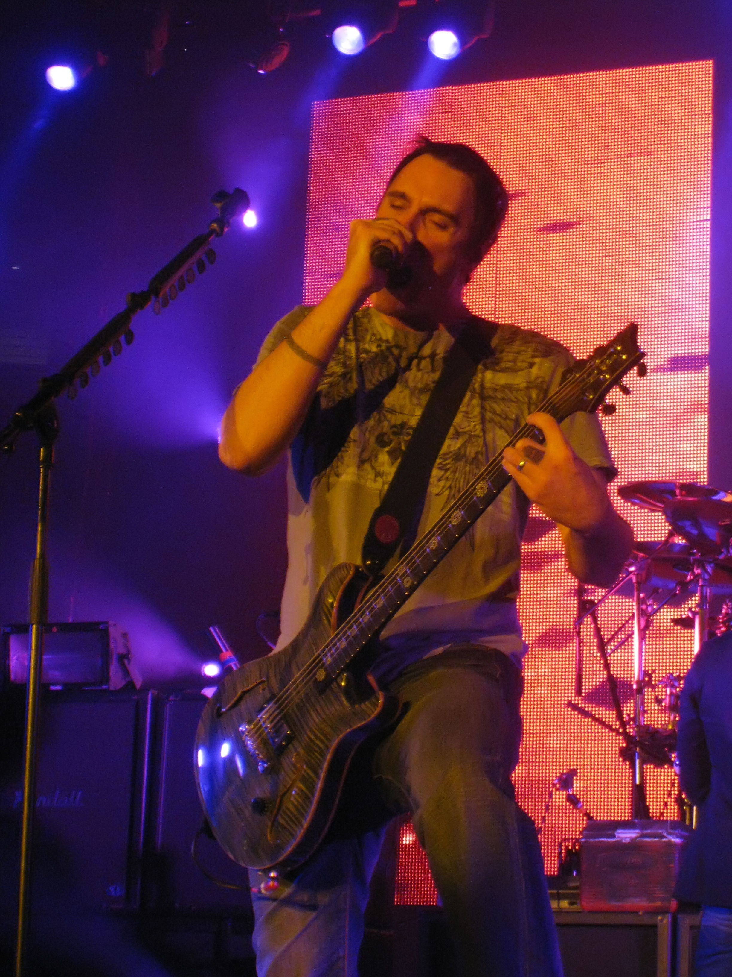 Benjamin Burnley, lead singer of the alternative metal band Breaking Benjamin